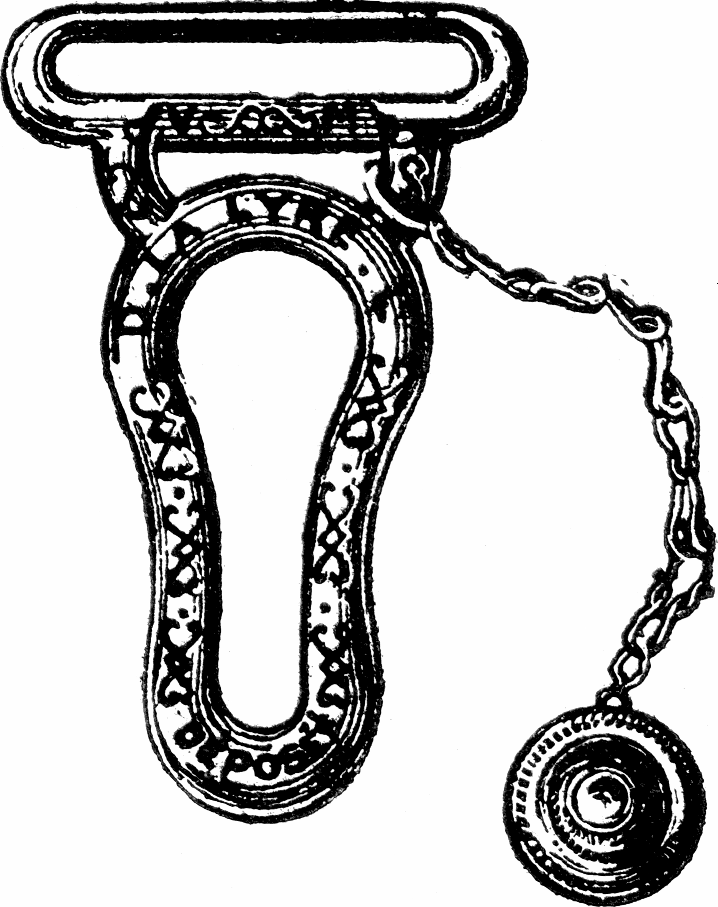 Buckle and button for a garter